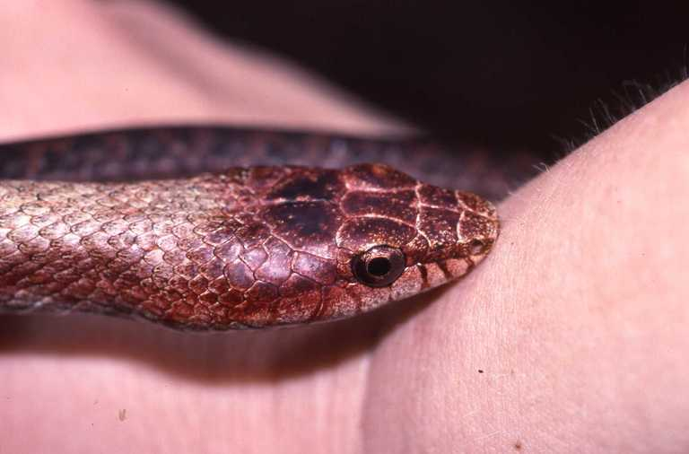 Ithycyphus miniatus in Ampijoroa, Madagascar